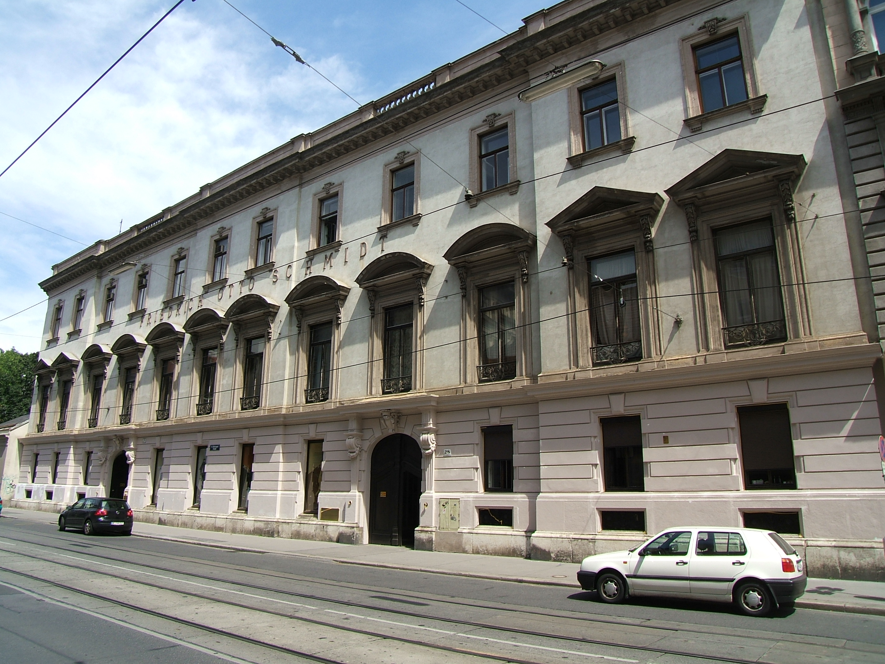 Palais Chotek in Vienna, 9th district Währingerstr´ße 29